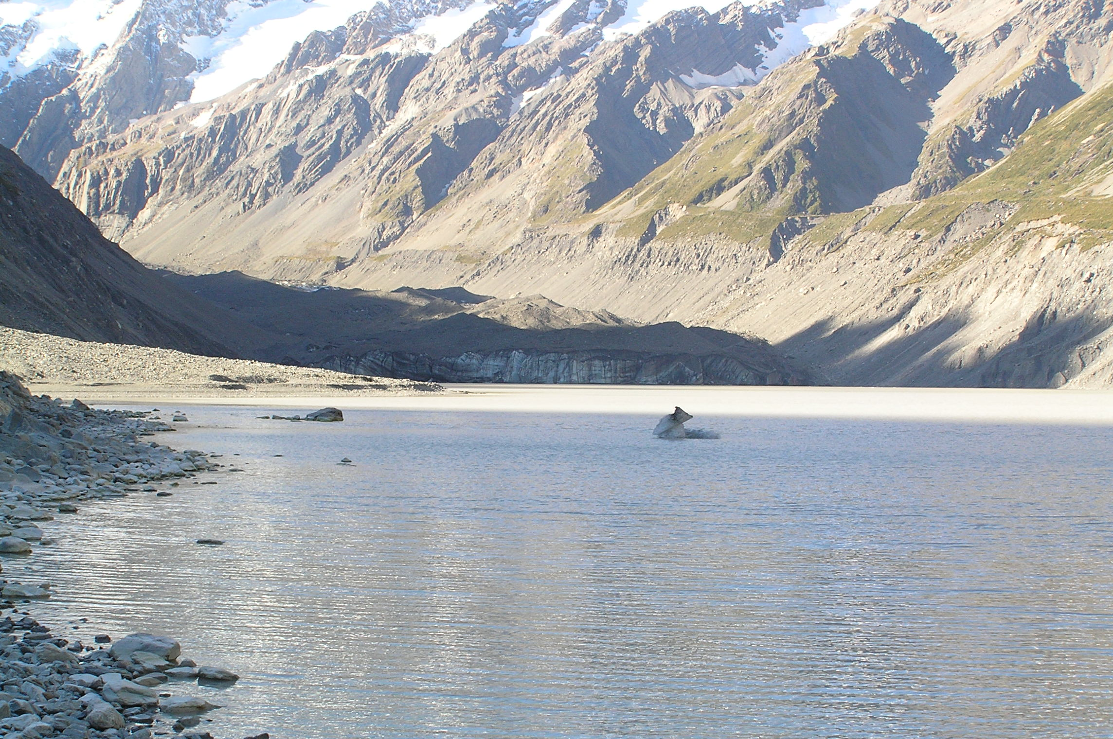 View of the Hooker glacier (in shadow) from the shores of the Hooker Lake Author: Mr. Tickle Date: March, 2005